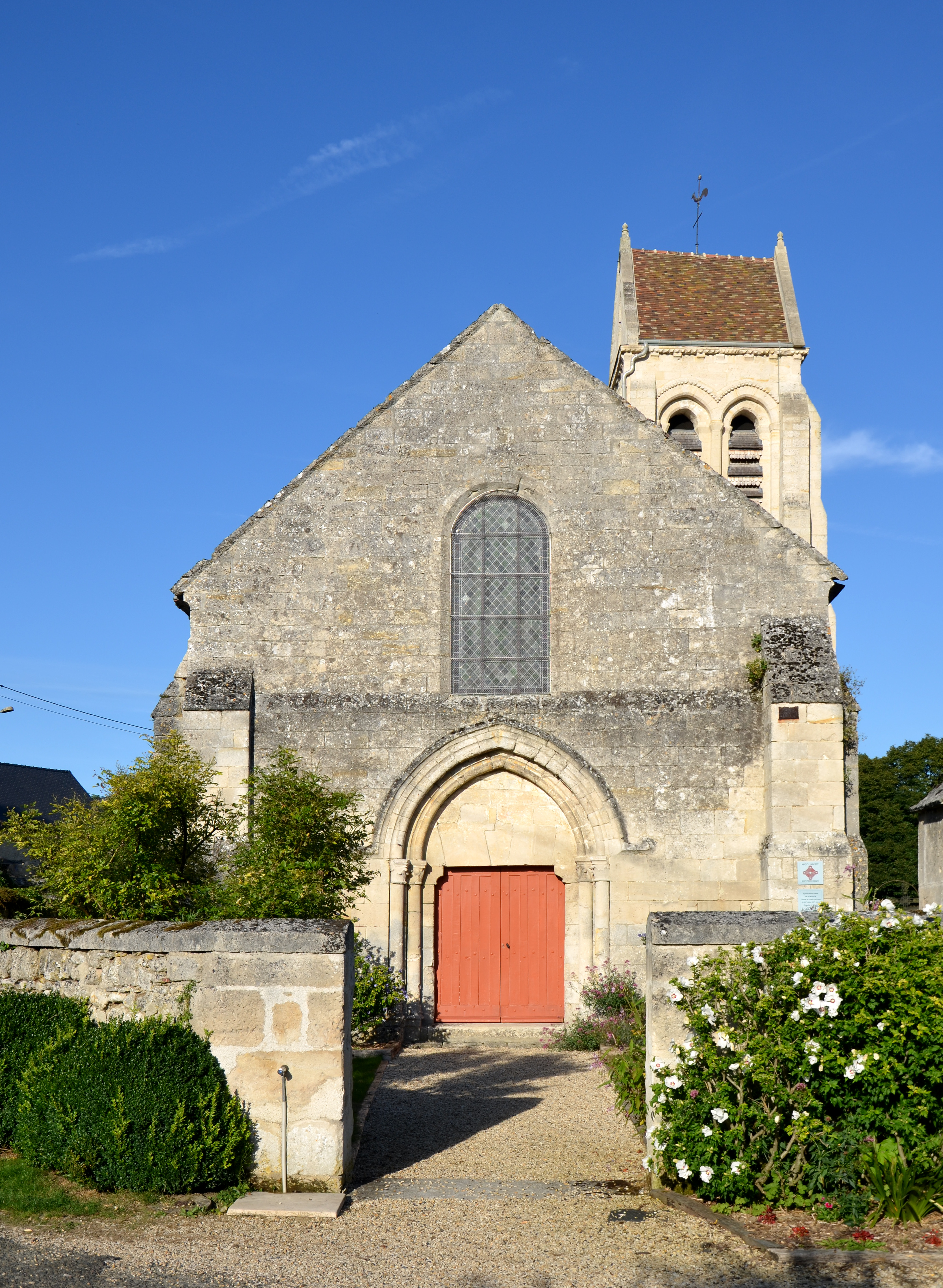 Church of Pondron, Fresnoy-la-Rivière, Oise, Picardie, France